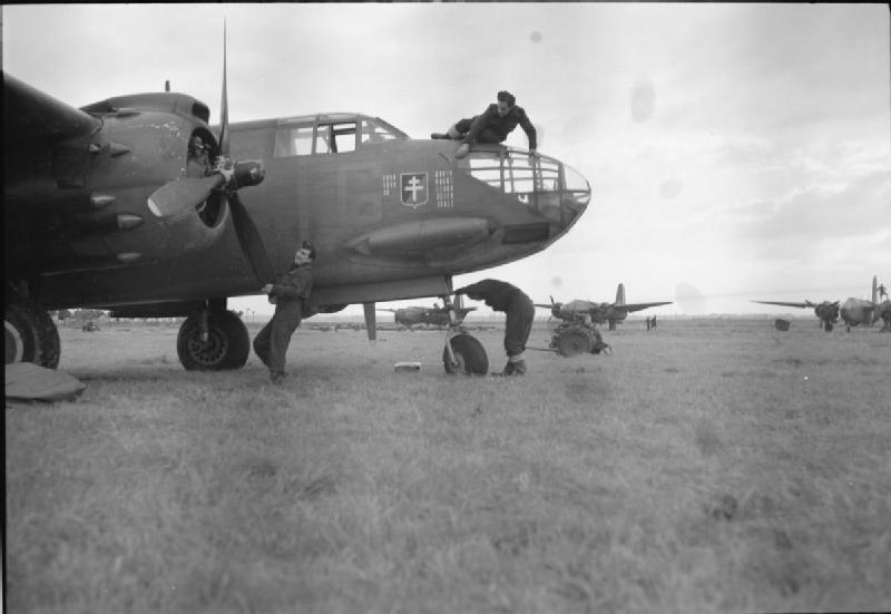 Royal Air Force- 2nd Tactical Air Force, 1943-1945. Douglas Bostons of No. 342 (Free French) Squadron RAF at B50/Vitry-en-Artois, on the first day of the unit's return to France. In the foreground Mark III, BZ208 'OA-G', undergoes a serviceability check by ground crew.